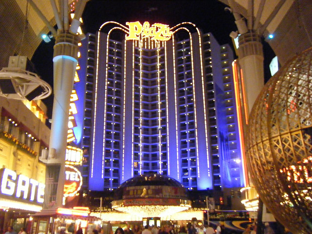 A photo of the Plaza Casino/Hotel.